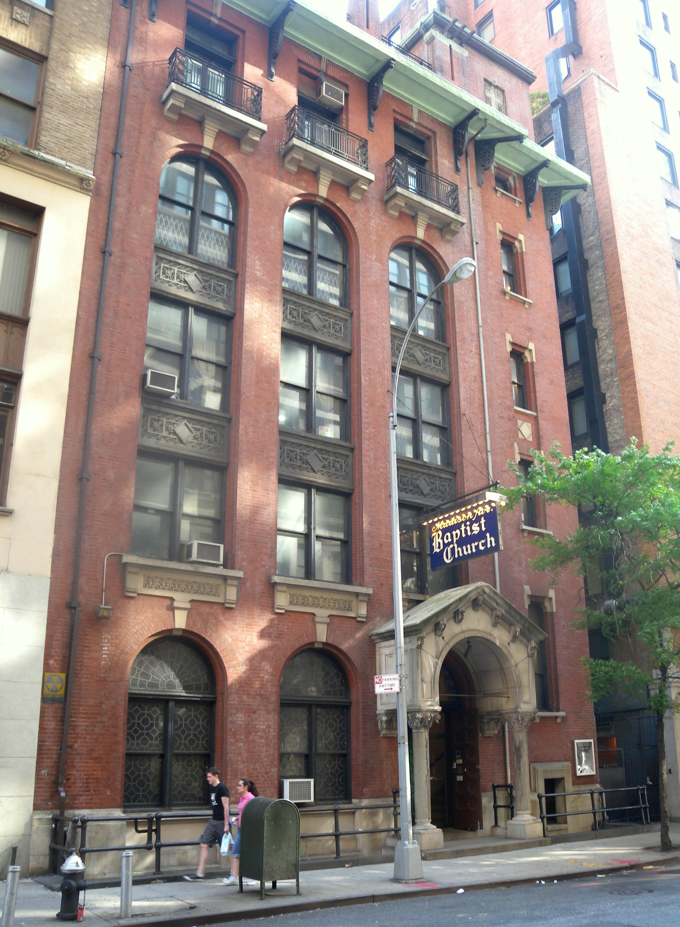 Looking west at Madison Avenue Church on a cloudy day.